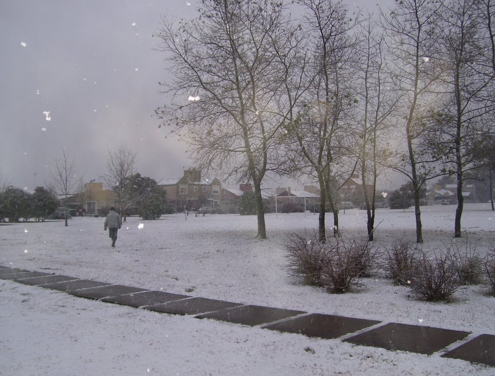 Snow covered neighbourhood in Monte Grande (Argentina)